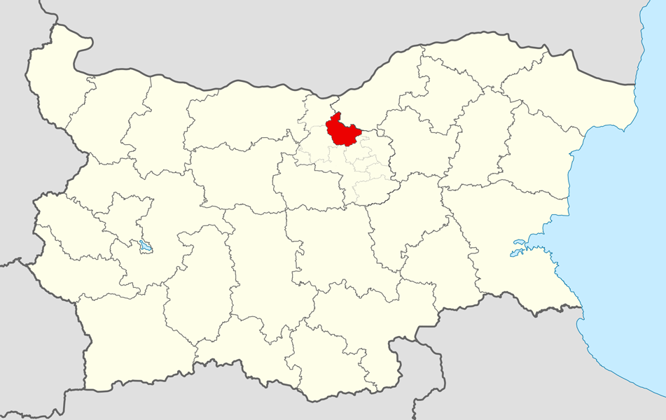 Location map of Polski Trambesh Municipality within Bulgaria and Veliko Tarnovo Province. Equirectangular projection, N/S stretching 130 %. Geographic limits of the map: N: 44.4° N S: 41.1° N W: 22.1° E E: 28.9° E